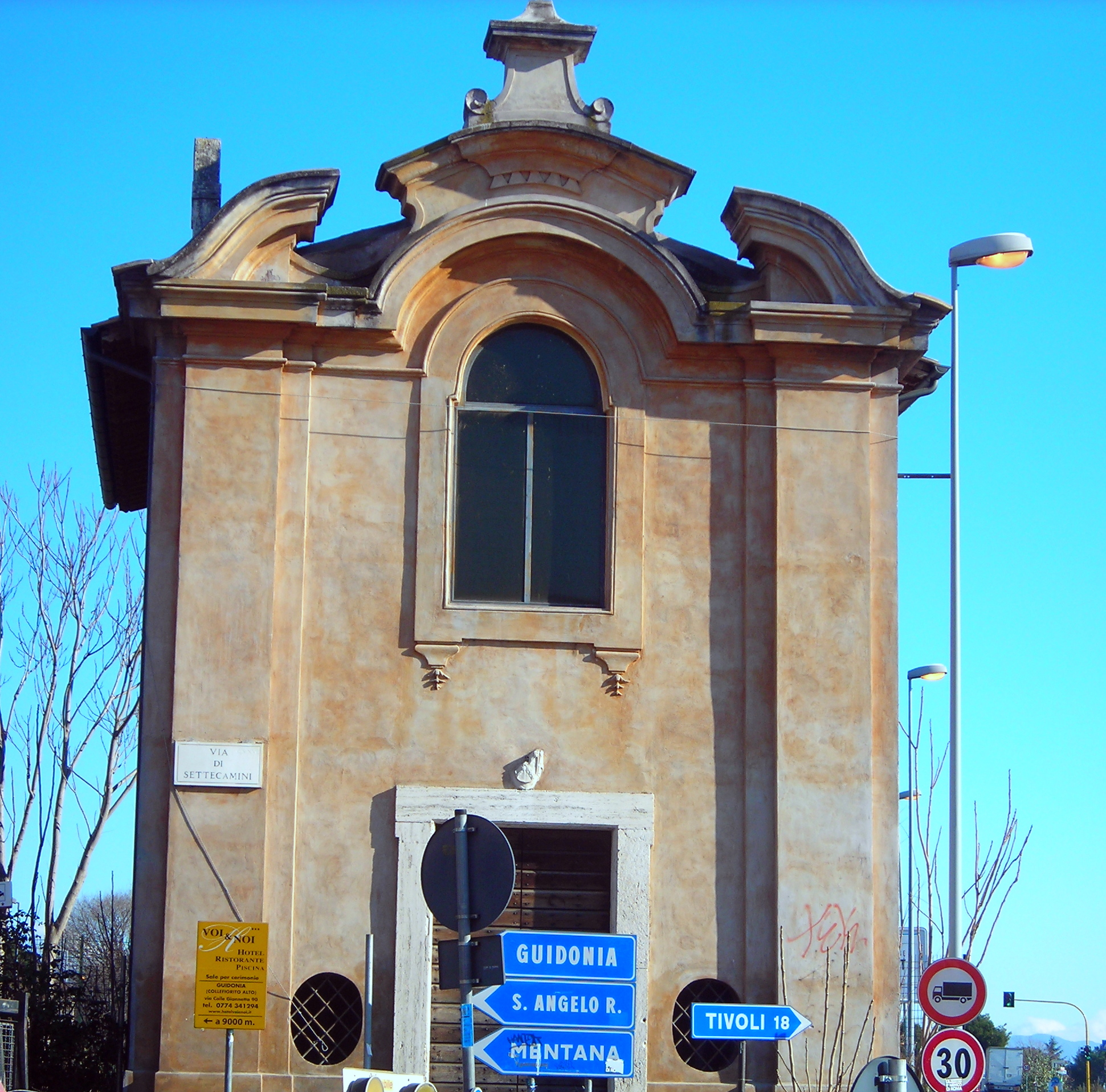 Photo taken by Andrea Palermitano, 16 December 2007